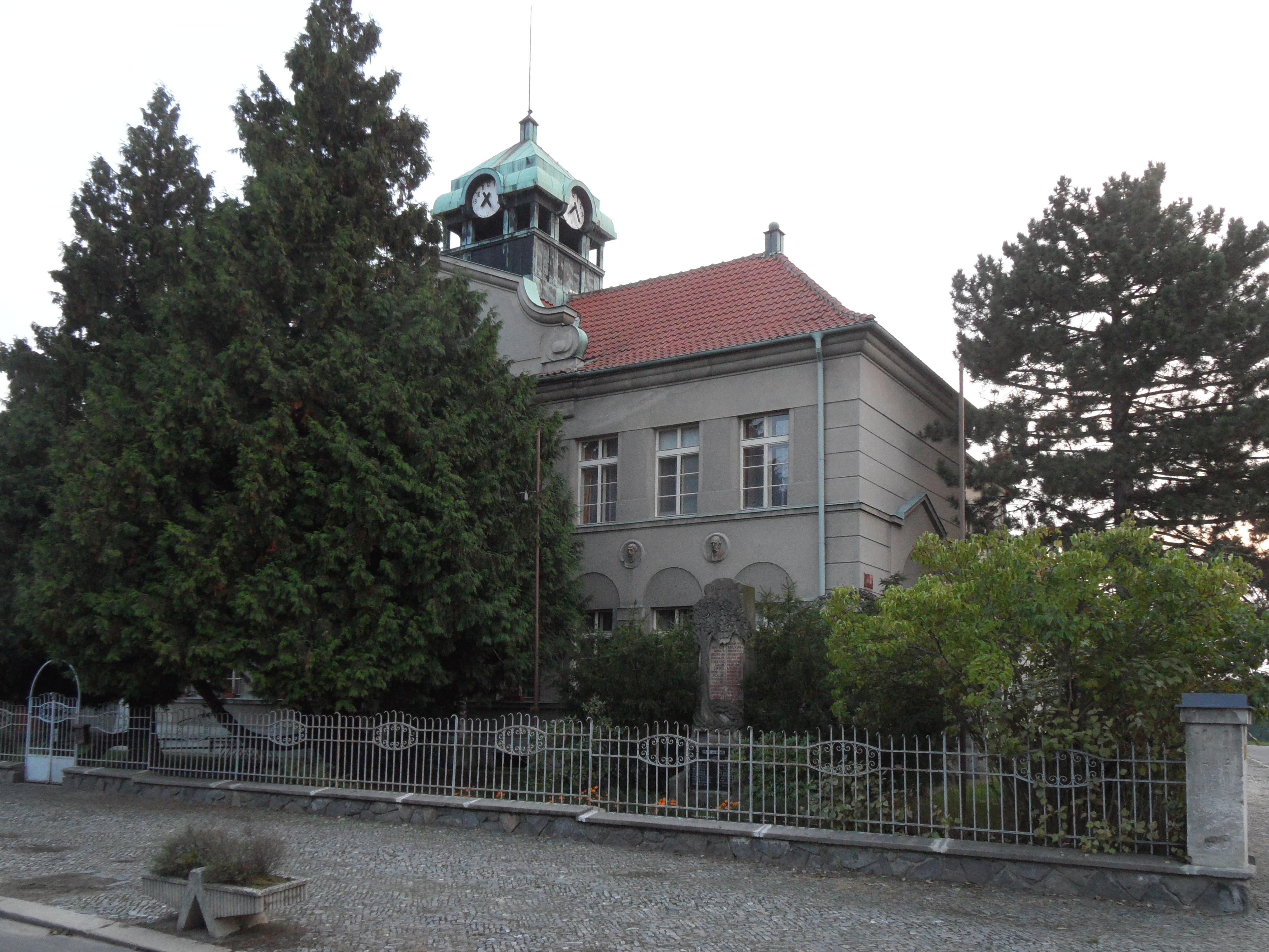 Sendražice (Kolín) A. Building of Elementary School, Kolín District, the Czech Republic.